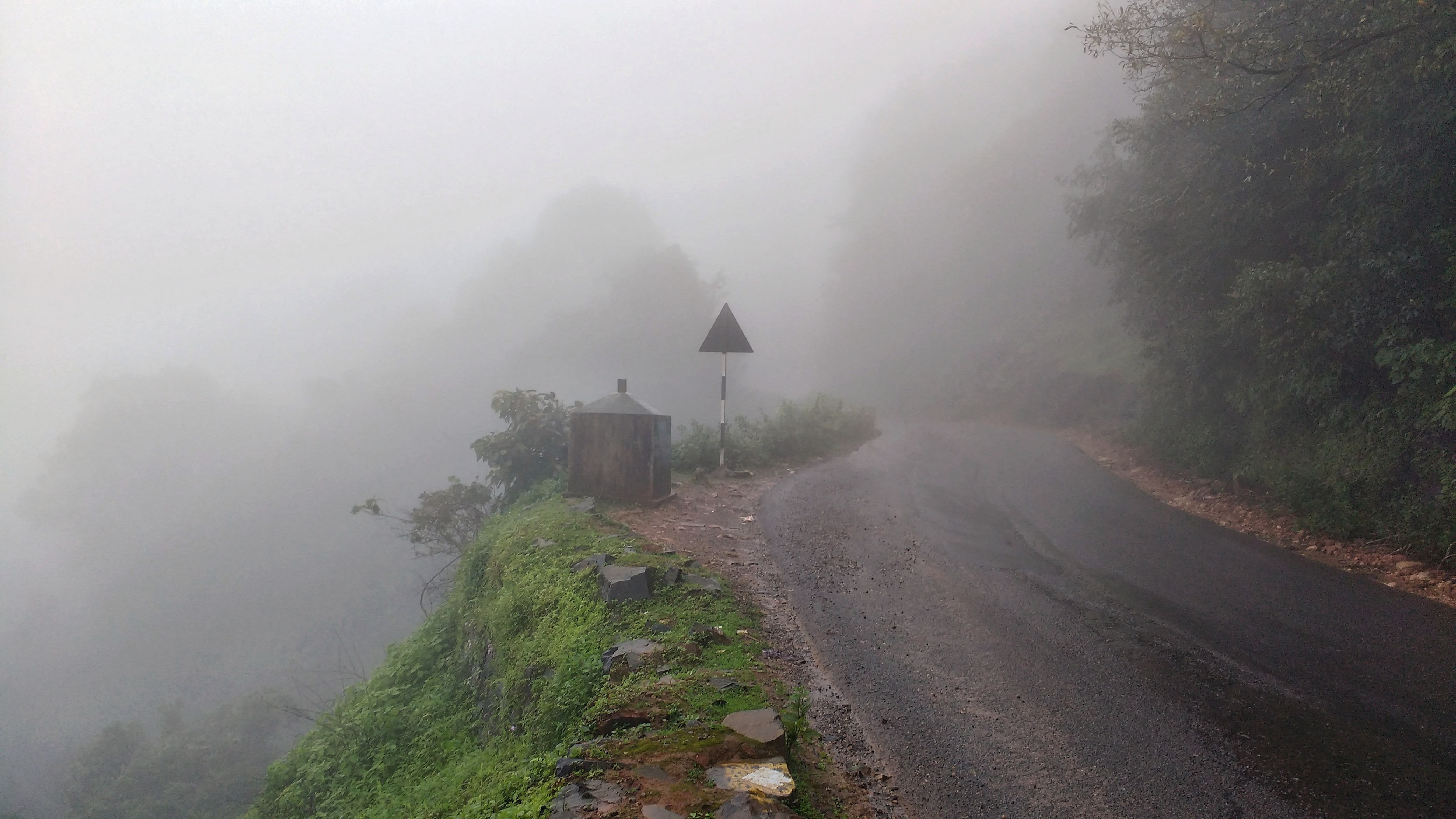 The image is taken during monsoons. Hulikal is known as one of the highest rainfall receiving places in India. The road in the picture connects Kundapur and other towns in Shivamogga district. ಕನ್ನಡ: ಈ ಪಟವನ್ನು ಹುಲಿಕಲ್ ಘಾಟಿಯನ್ನು ಮಳೆಗಾಲದಲ್ಲಿ ಸೆರೆಹಿಡಿಯಲಾಗಿದೆ. ಭಾರತದ ಅತಿಹೆಚ್ಚು ಮಳೆ ಬೀಳುವ ಪ್ರದೇಶಗಳಲ್ಲಿ ಇದೂ ಒಂದು. ಶಿವಮೊಗ್ಗದ ಪ್ರಮುಖ ಪಟ್ಟಣಗಳನ್ನು ಕುಂದಾಪುರಕ್ಕೆ ಸಂಪರ್ಕಿಸುವ ರಸ್ತೆ ಇದು.